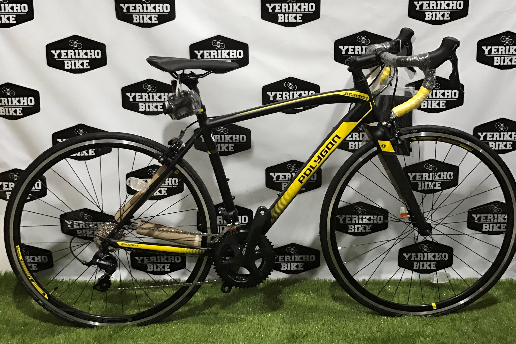 Polygon Strattos S3 (Road Bike type) by Toko Sepeda Yerikho